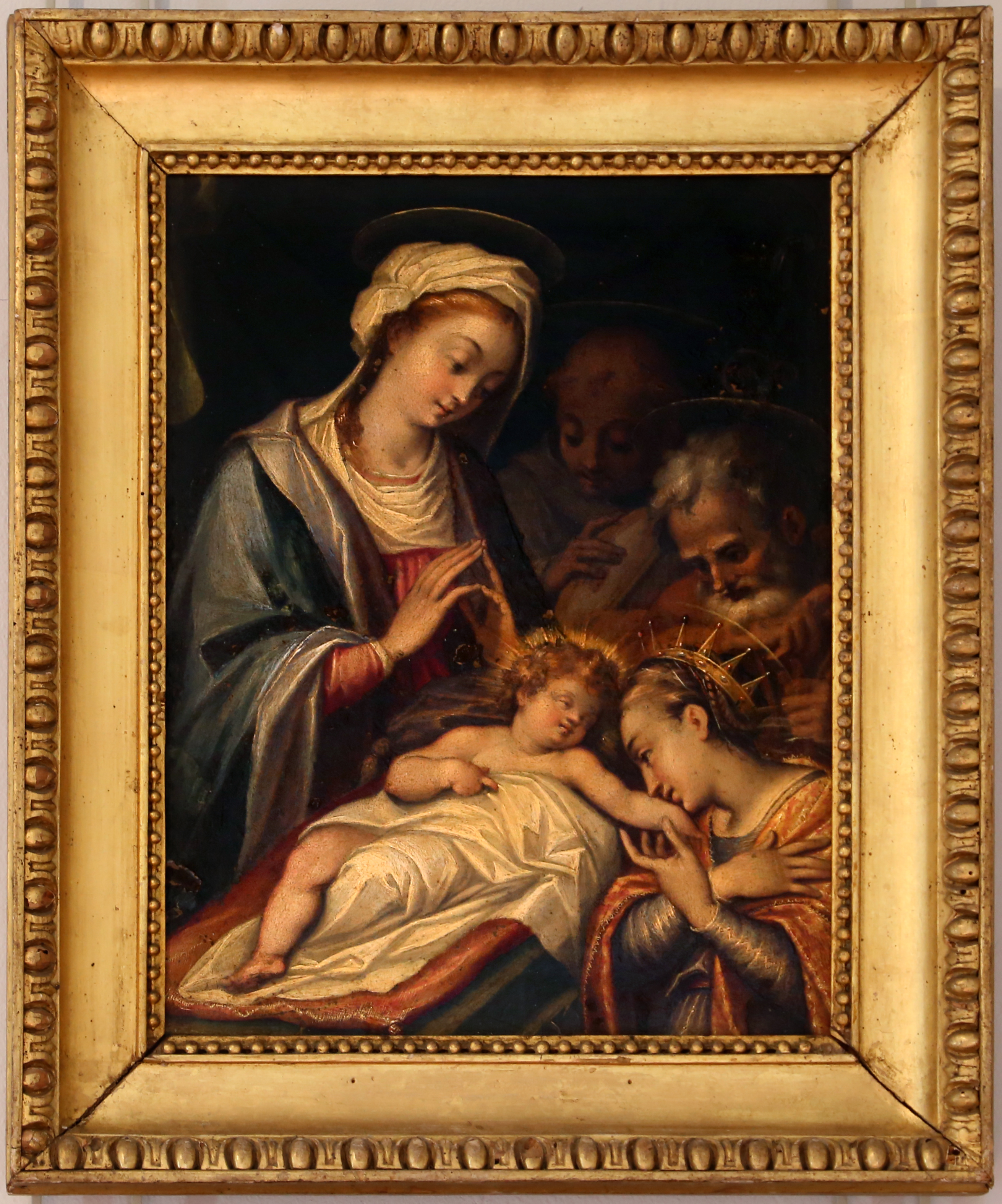 Paintings in the Musée Fesch